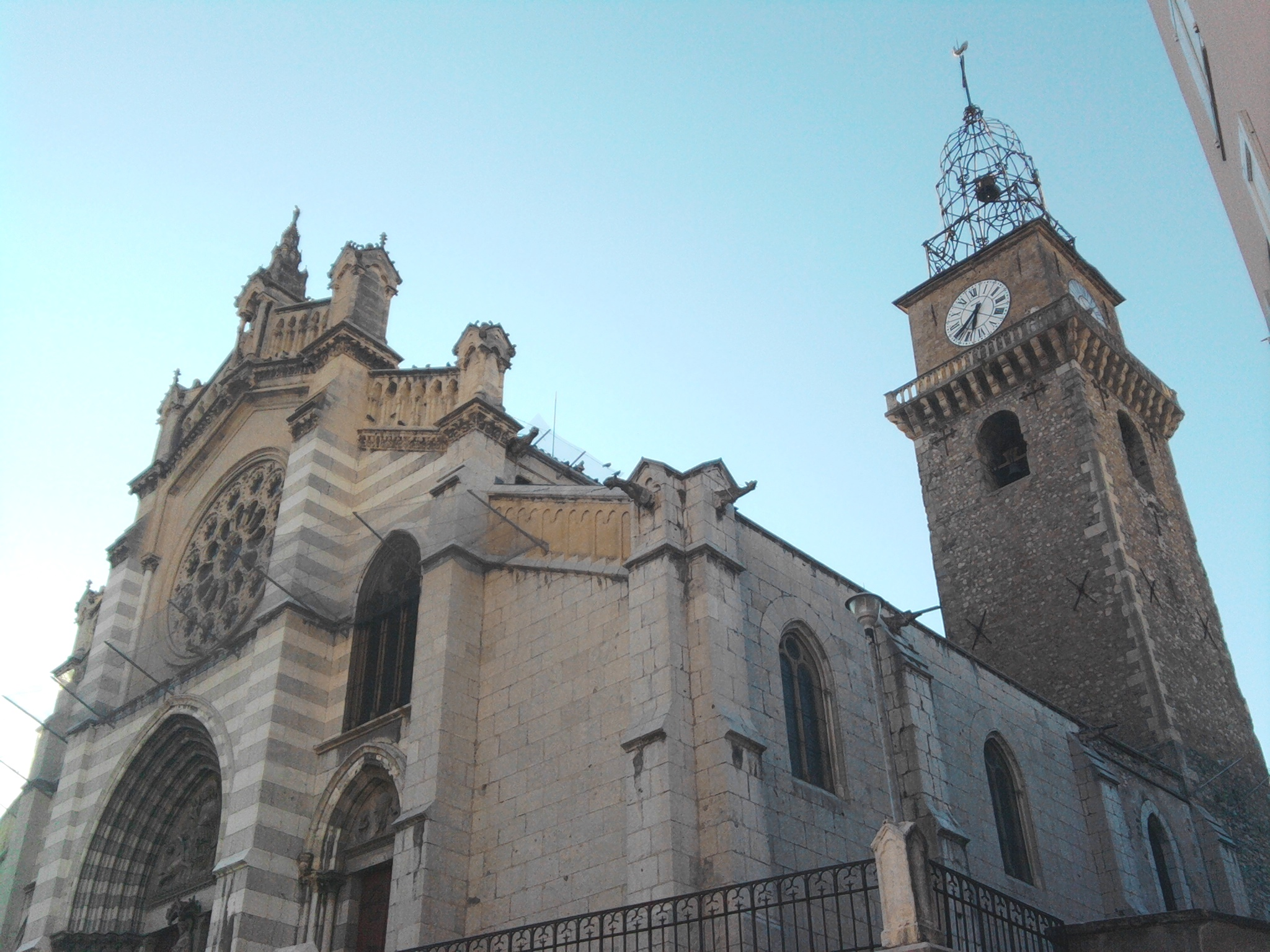 Cathedral St Jerome from Digne-les-Bains, in Alpes-de-Haute-Provence (France)